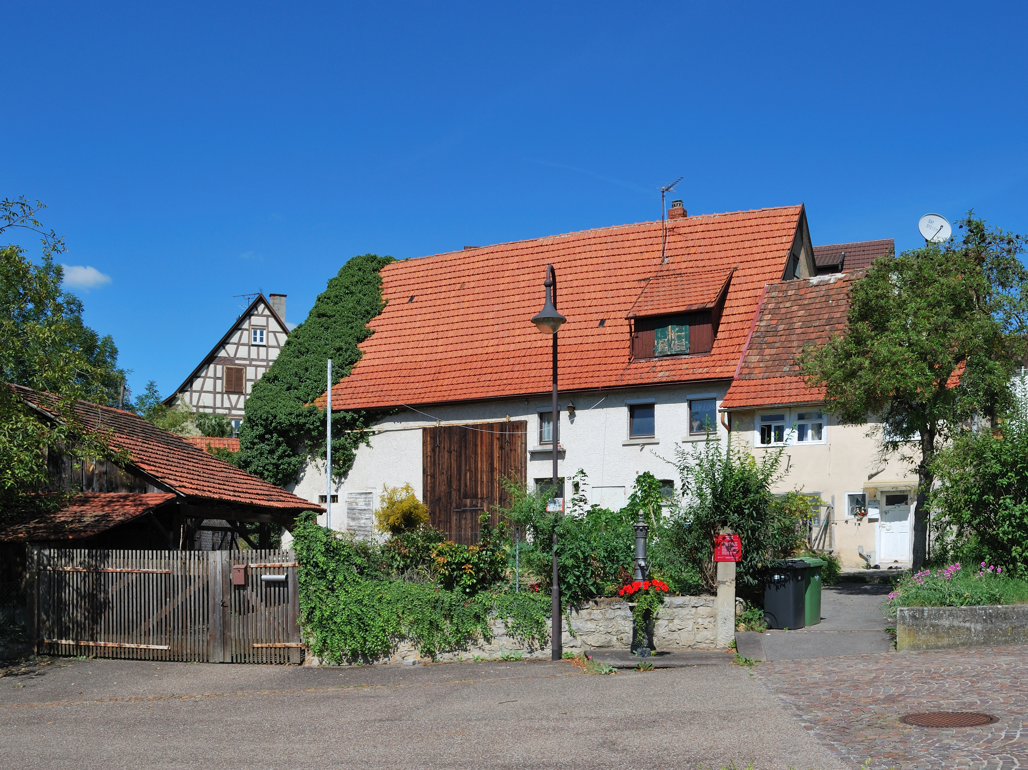 The former Widumhof in Schwieberdingen in the federal state Baden-Württemberg in Germany. Widum denoted an estate donated to the church.